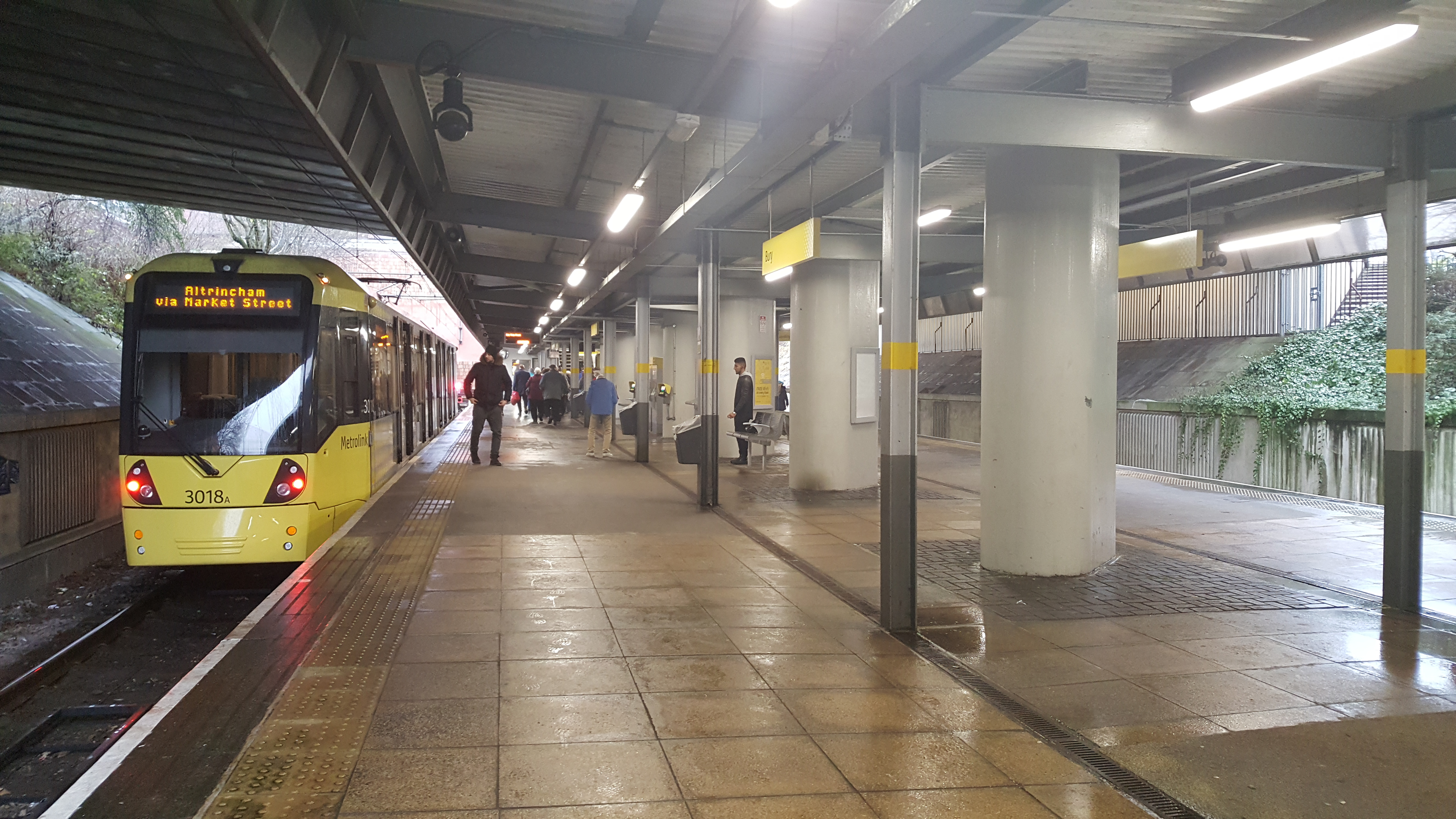 Manchester Metrolink M5000 terminating at Bury interchange.